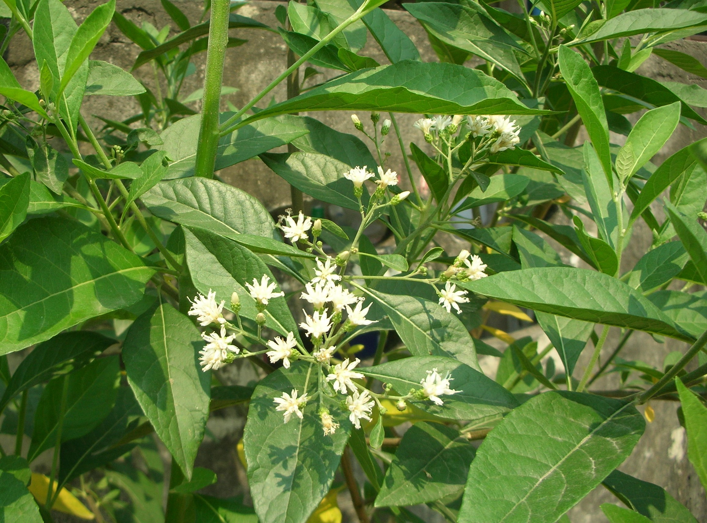 Gymnanthemum extensum flowers